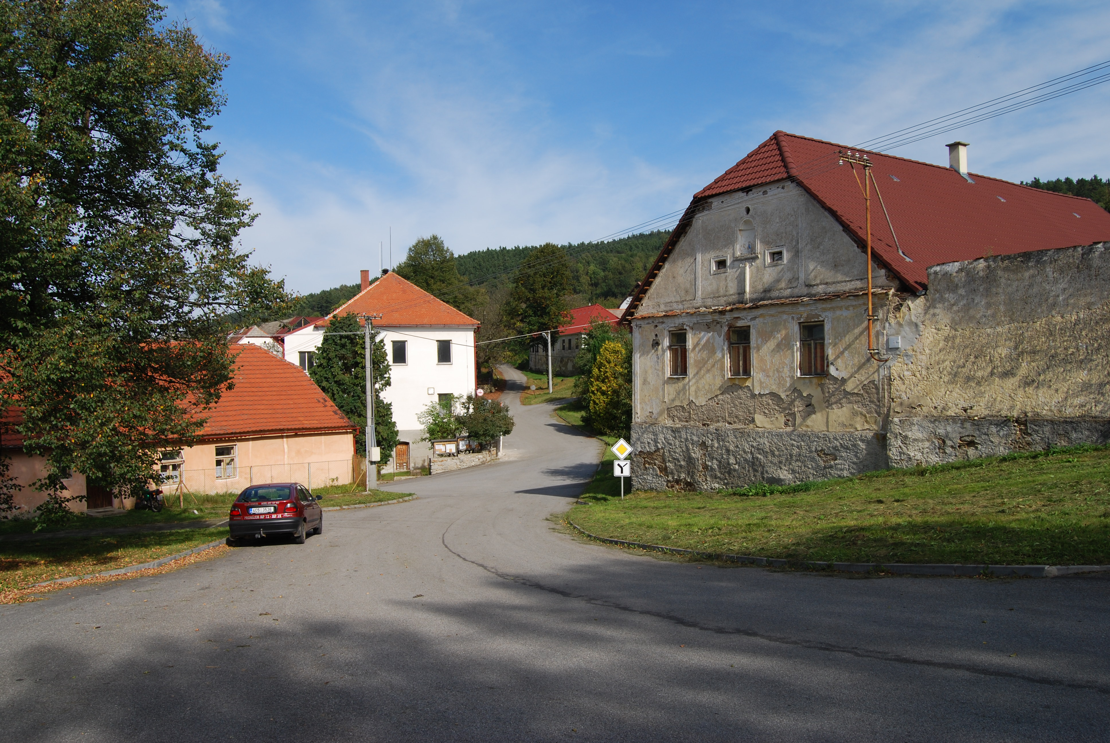 Mičovice village in Prachatice District, Czech Republic.